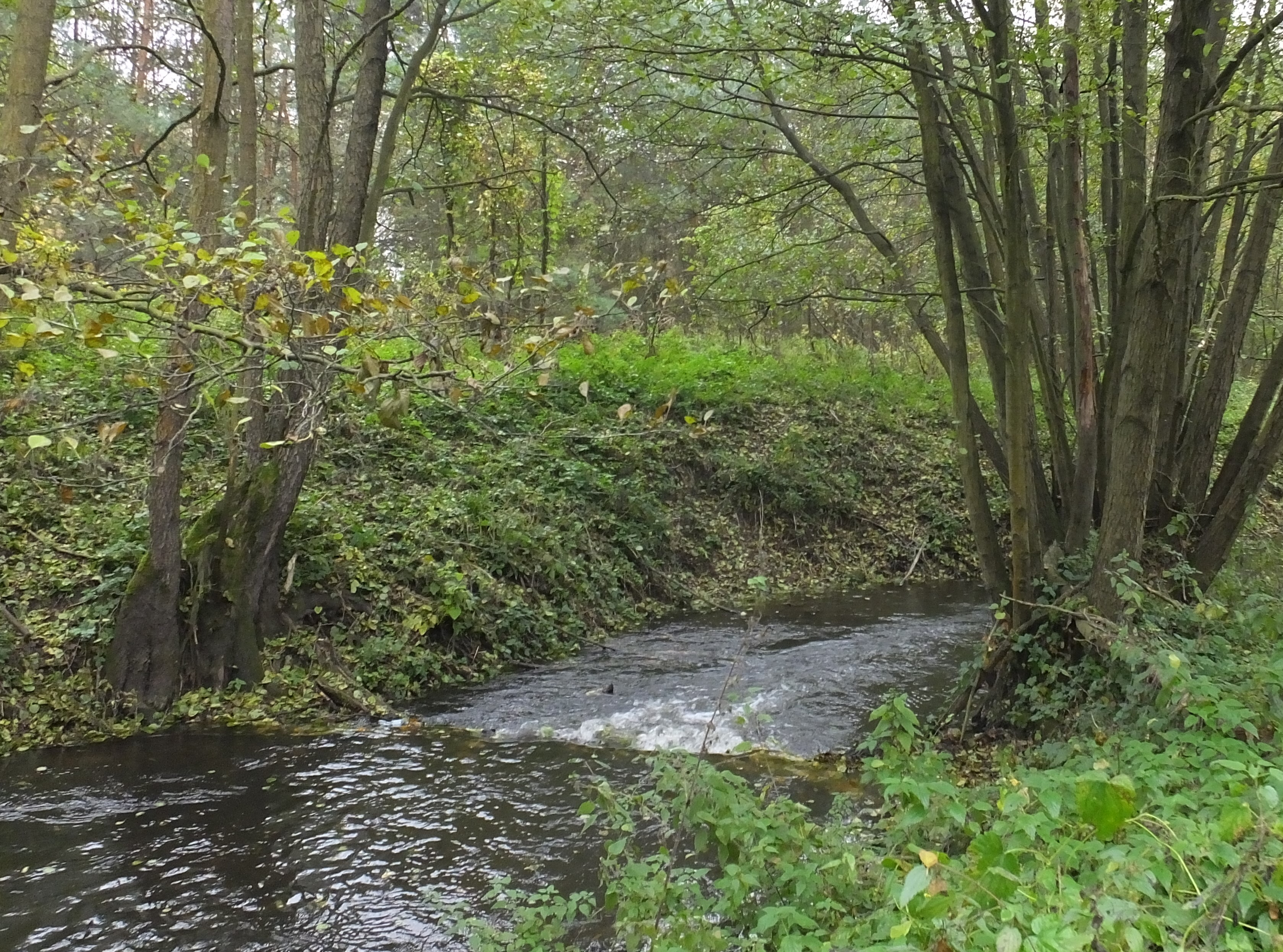 Hydromorphological elements of river water body assessment - riffle with rippled type of flow and broken standing waves